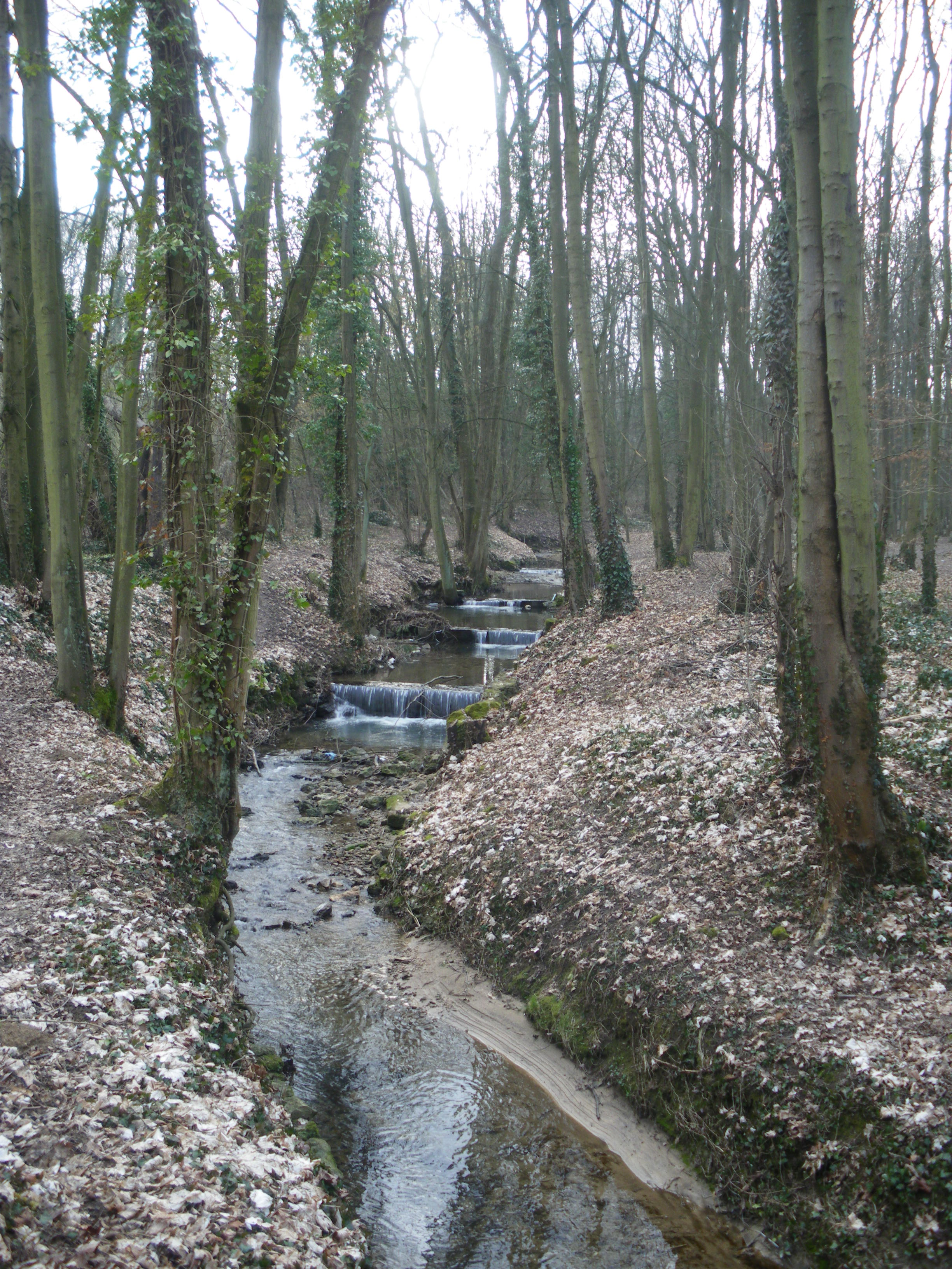 The stream Rouillon near Longjumeau, Essonne, France